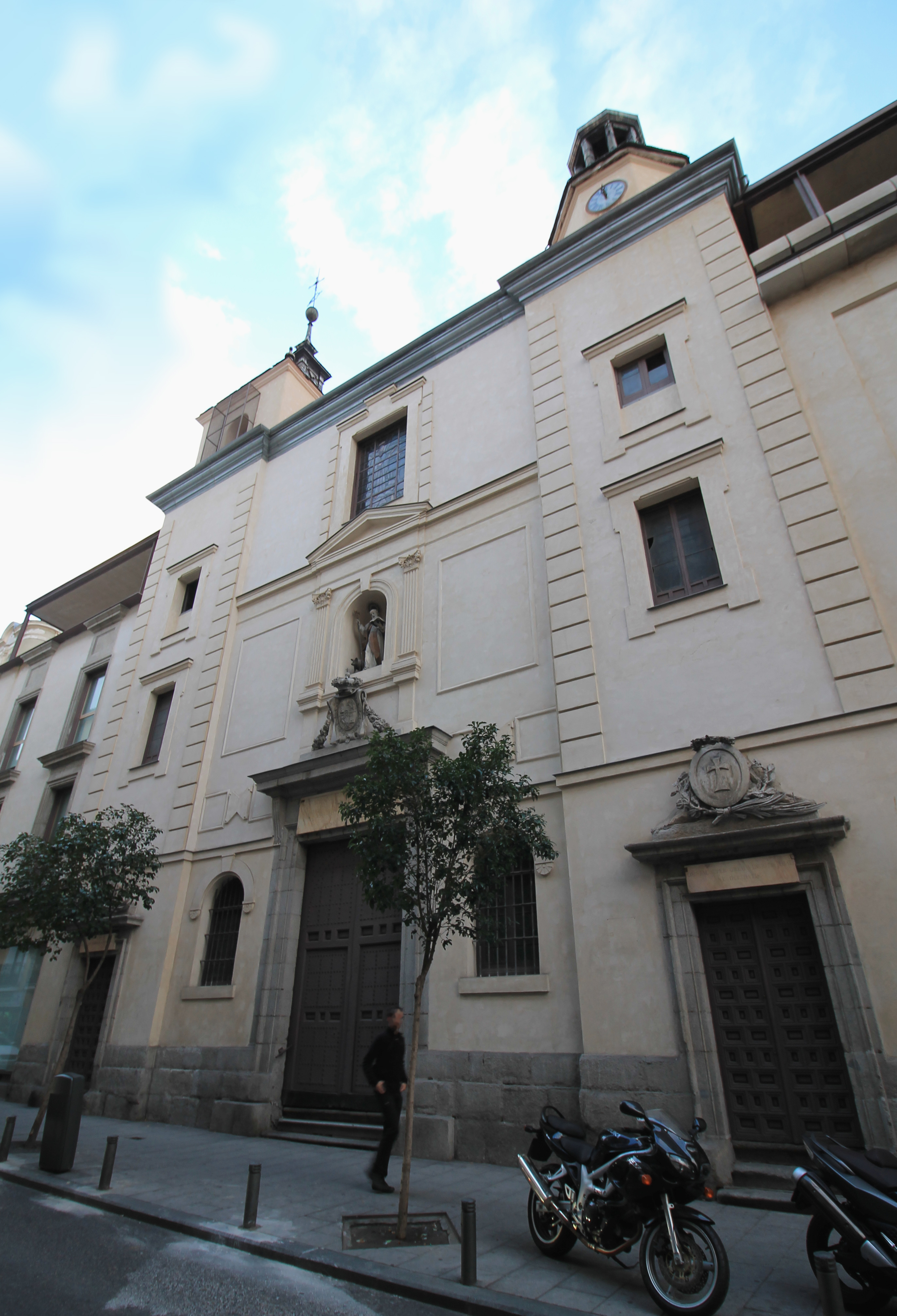 Façade of St. Anthony Church in Madrid (Spain).